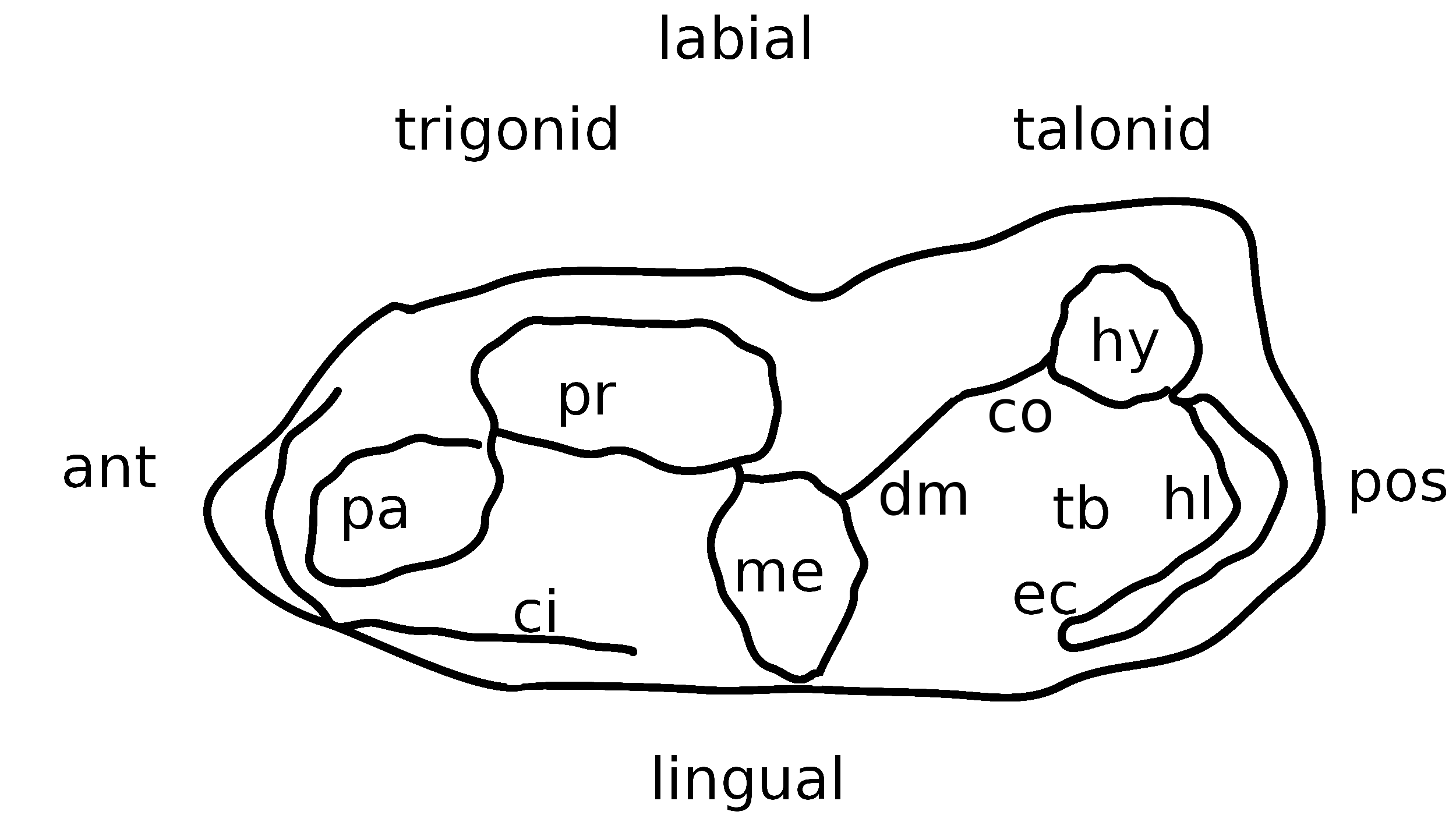 Labeled diagram of a generalized lower molar of an australosphenidan mammal. Drawn after Flynn et al. (1999, Nature 401, p. 58, fig. 2) and Rougier et al. (2007, American Museum Novitates 3566, p. 13). Abbreviations: ant, anterior; pos, posterior; ci, lingual cingulum; pa, paraconid; pr, protoconid; me, metaconid; hy, hypoconid; hl, hypoconulid; ec, entocristid; tb, talonid basin.